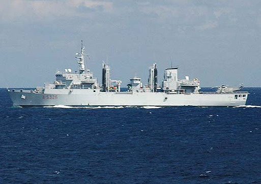 The Italian Ship Etna steams alongside a NATO Carrier during Destined Glory 2005 while conducting manoeuvres in the Mediterranean Sea October 5, 2005. Photo by PH1 Timm Duckworth USN.